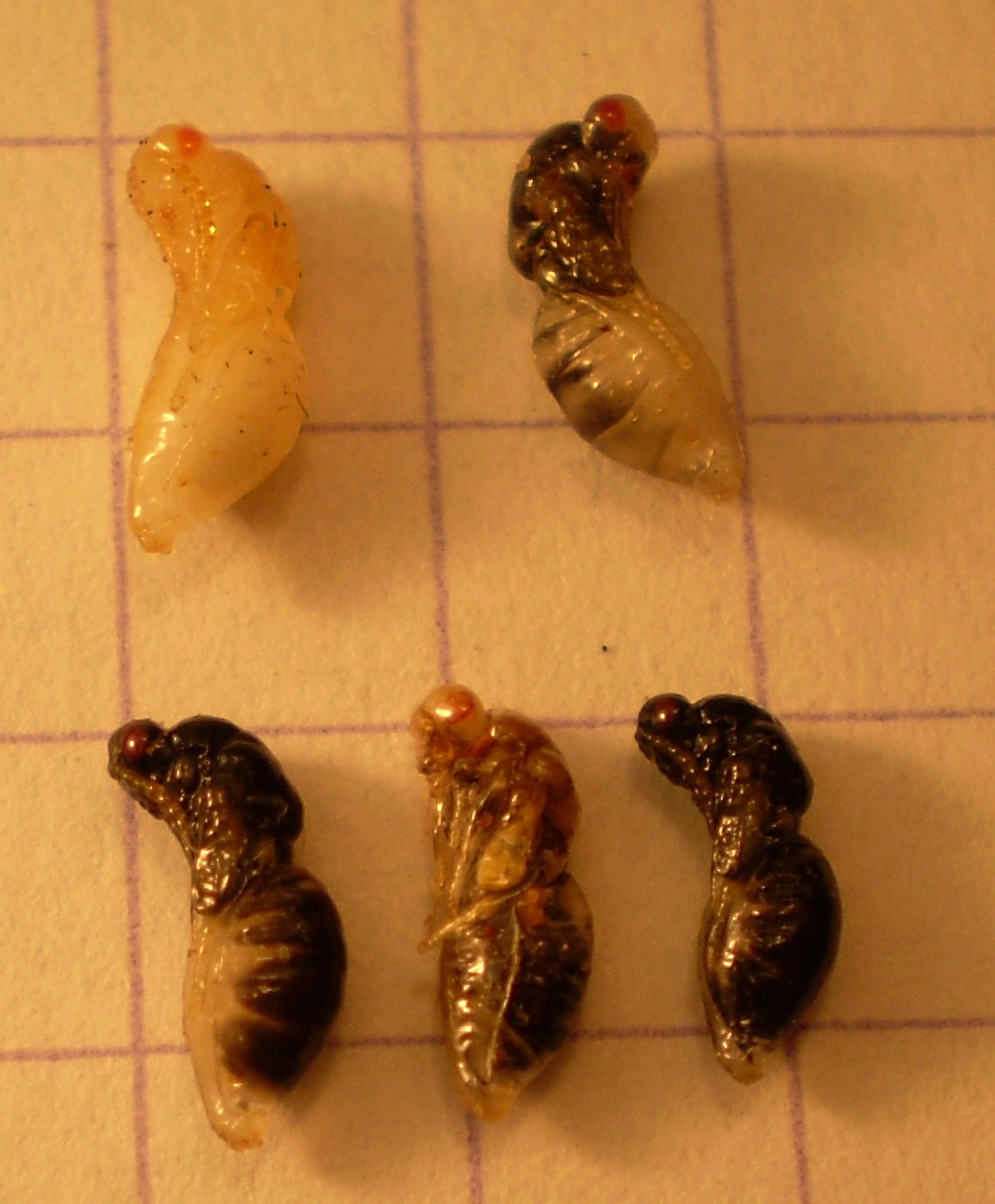 Larvae of Eurytoma amygdali colleted in almonds (Prunus dulcis) on the same day, the beginning of march. Only one nympha per fruit.